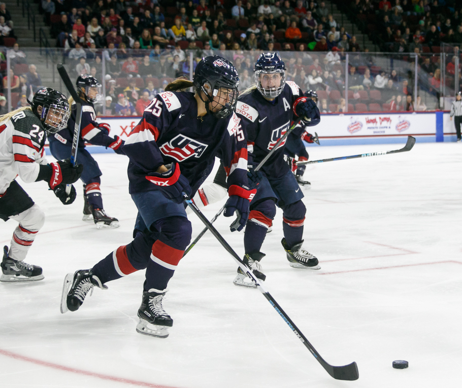 Alex Carpenter playing for Team USA in 2017